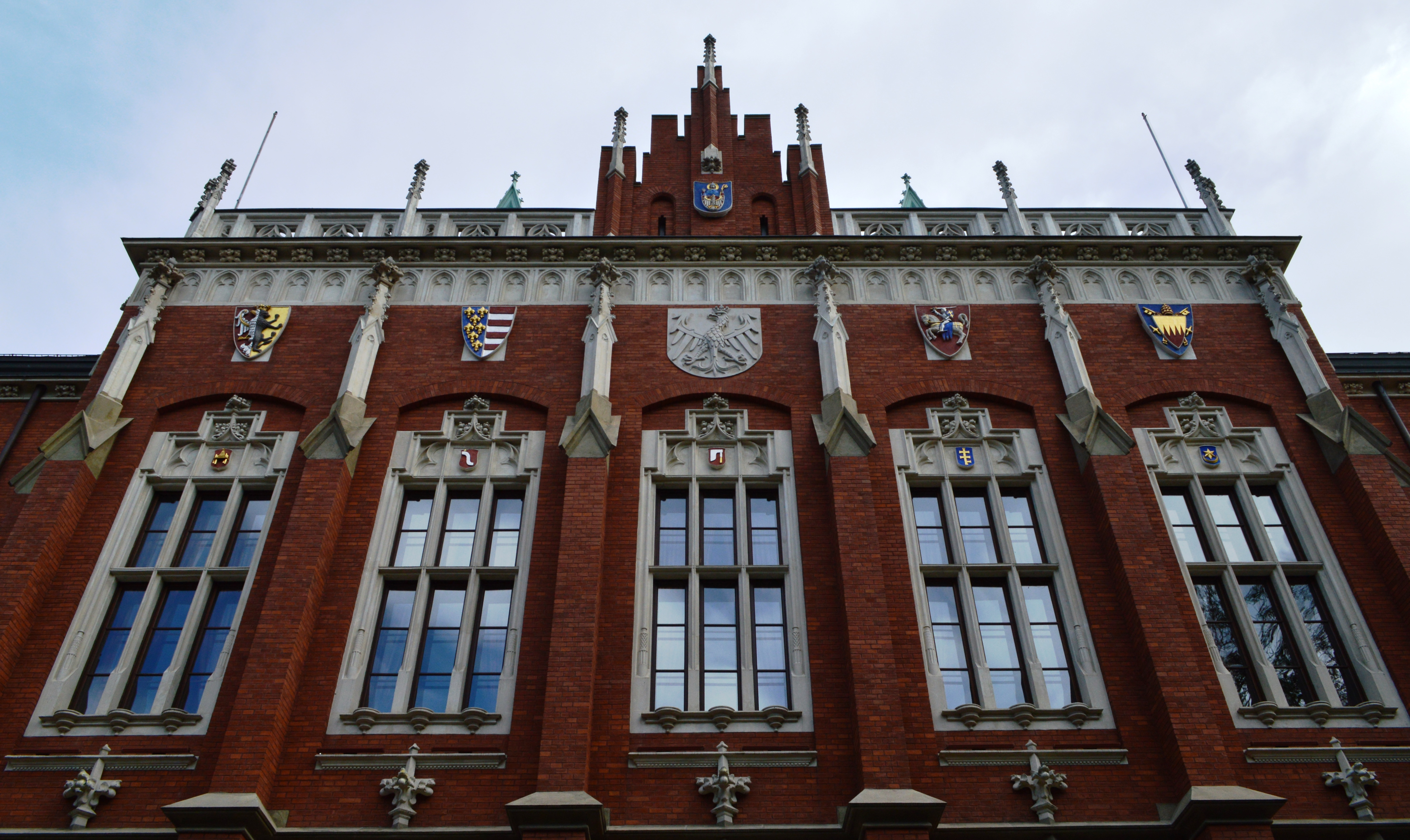 Façade of Novus College at the Jagiellonian University, Kraków, Poland.The Scotch Mist Gallery contains many photographs of historic buildings, monuments and memorials of Poland.